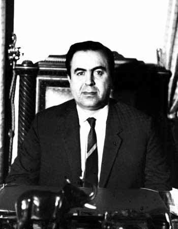 President Nur al-Din al-Atasi (1930-1992), the civilian leader who ruled Syria with Salah Jadid in 1966-1970 and was arrested when Hafez al-Asad came to power in 1970.